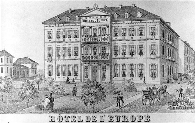 1865: Eröffnung des Hotels "Der europäische Hof" in Heidelberg nach zweijähriger Bauzeit.